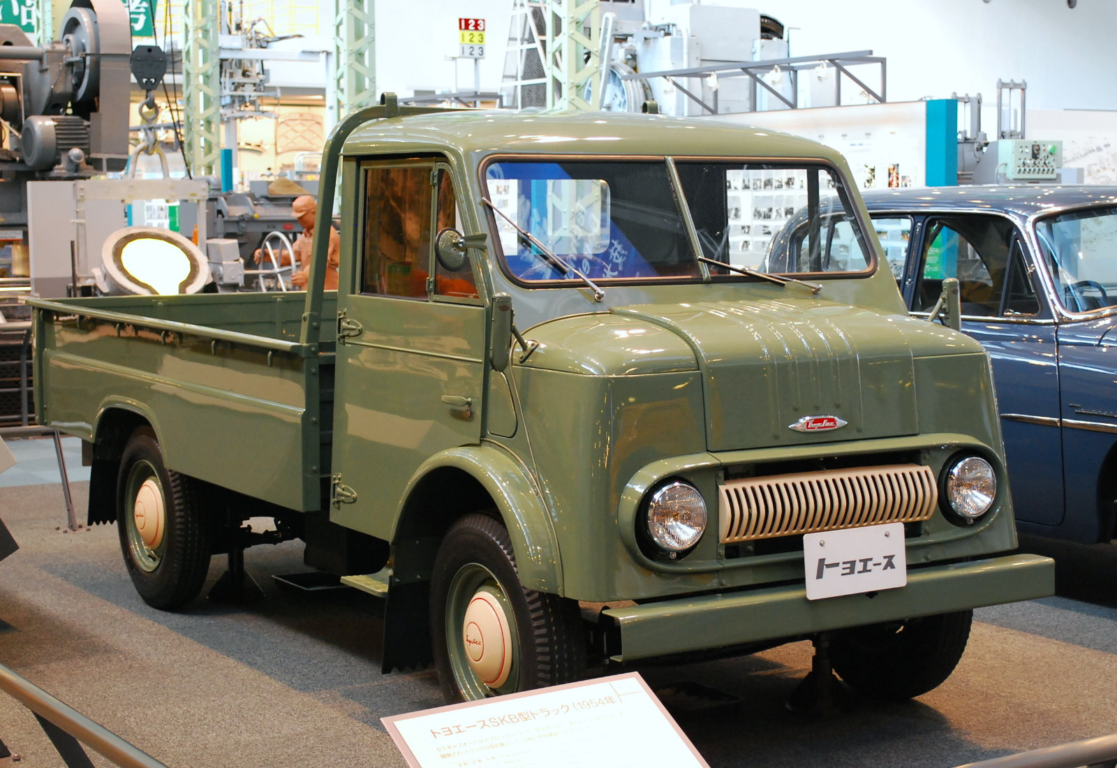 1st generation Toyota Toyoace